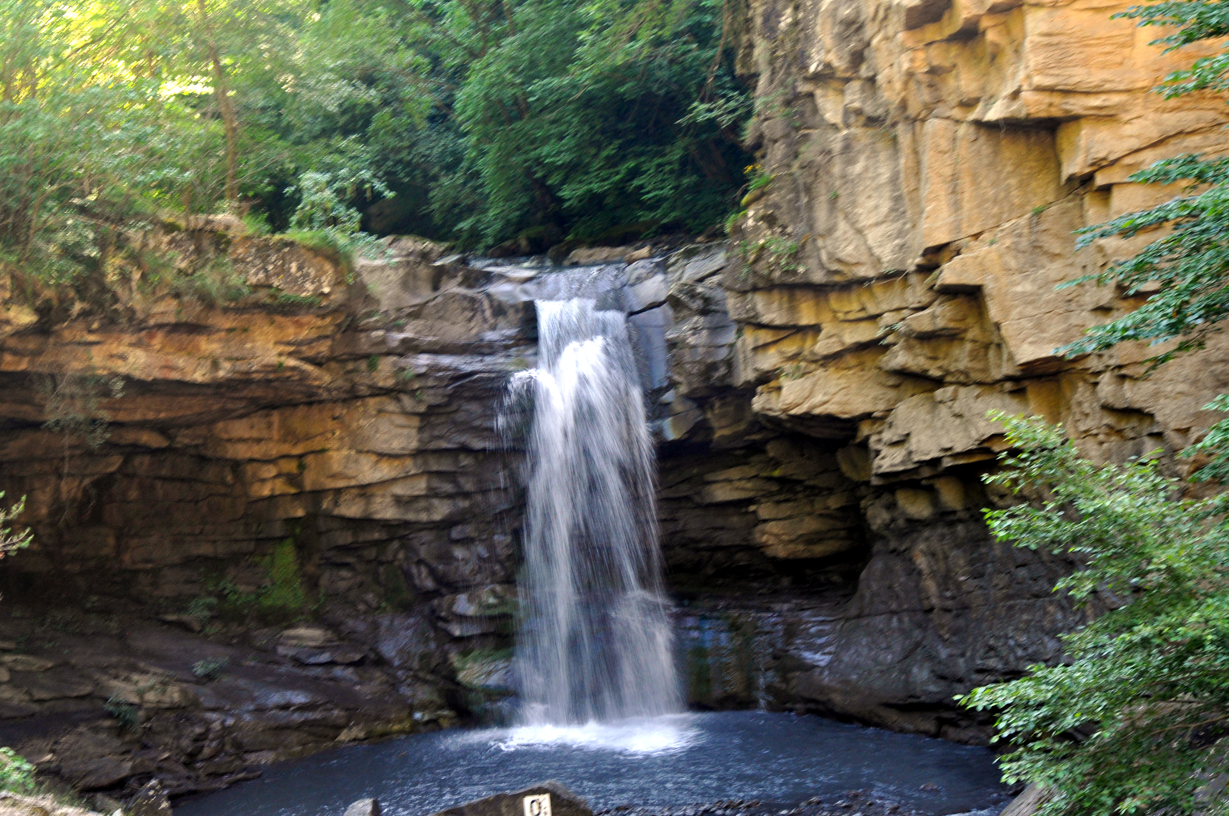 Chute du Bès à Verdaches